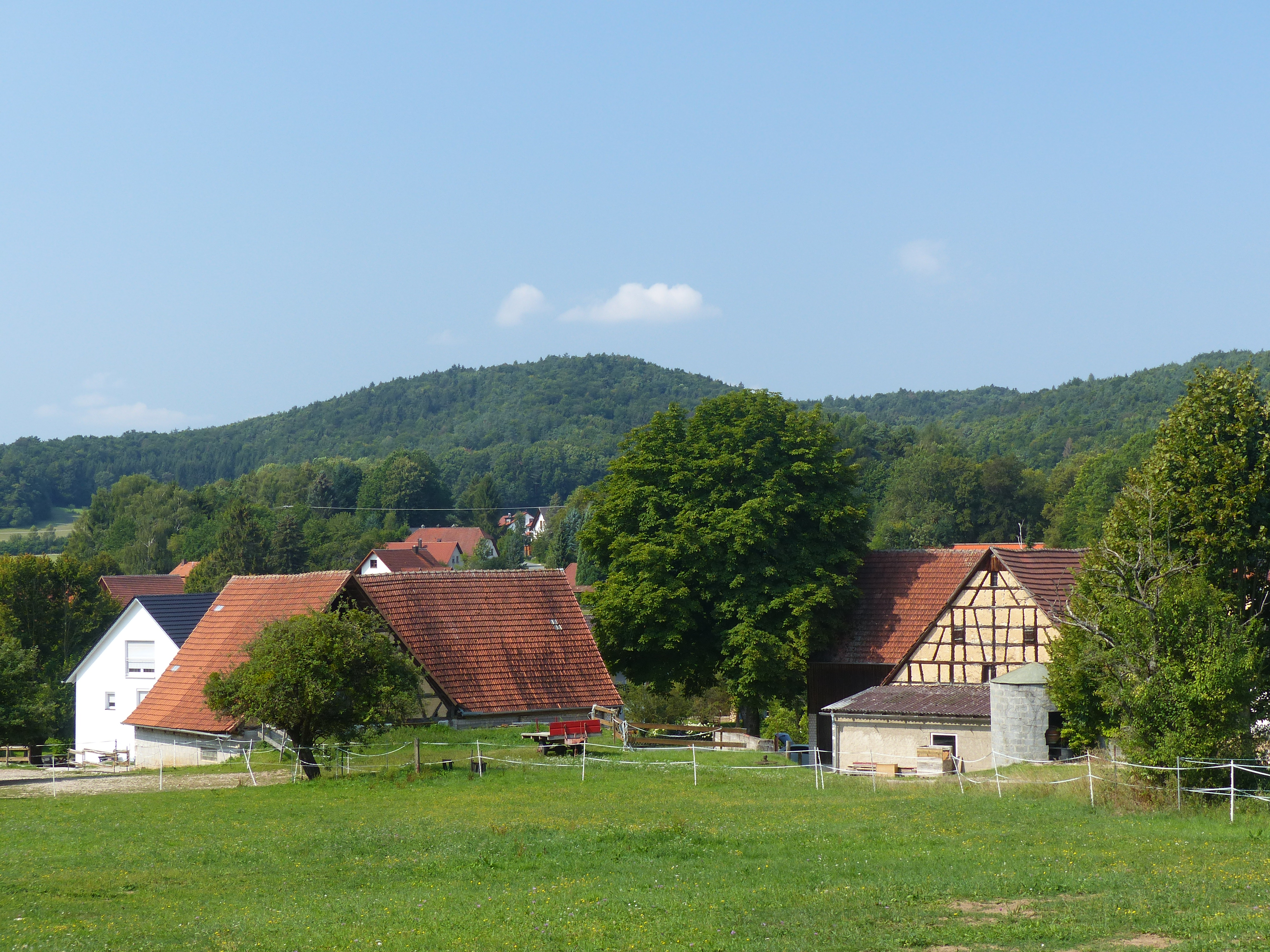 The village Windischgaillenreuth, a district of the town of Ebermannstadt.